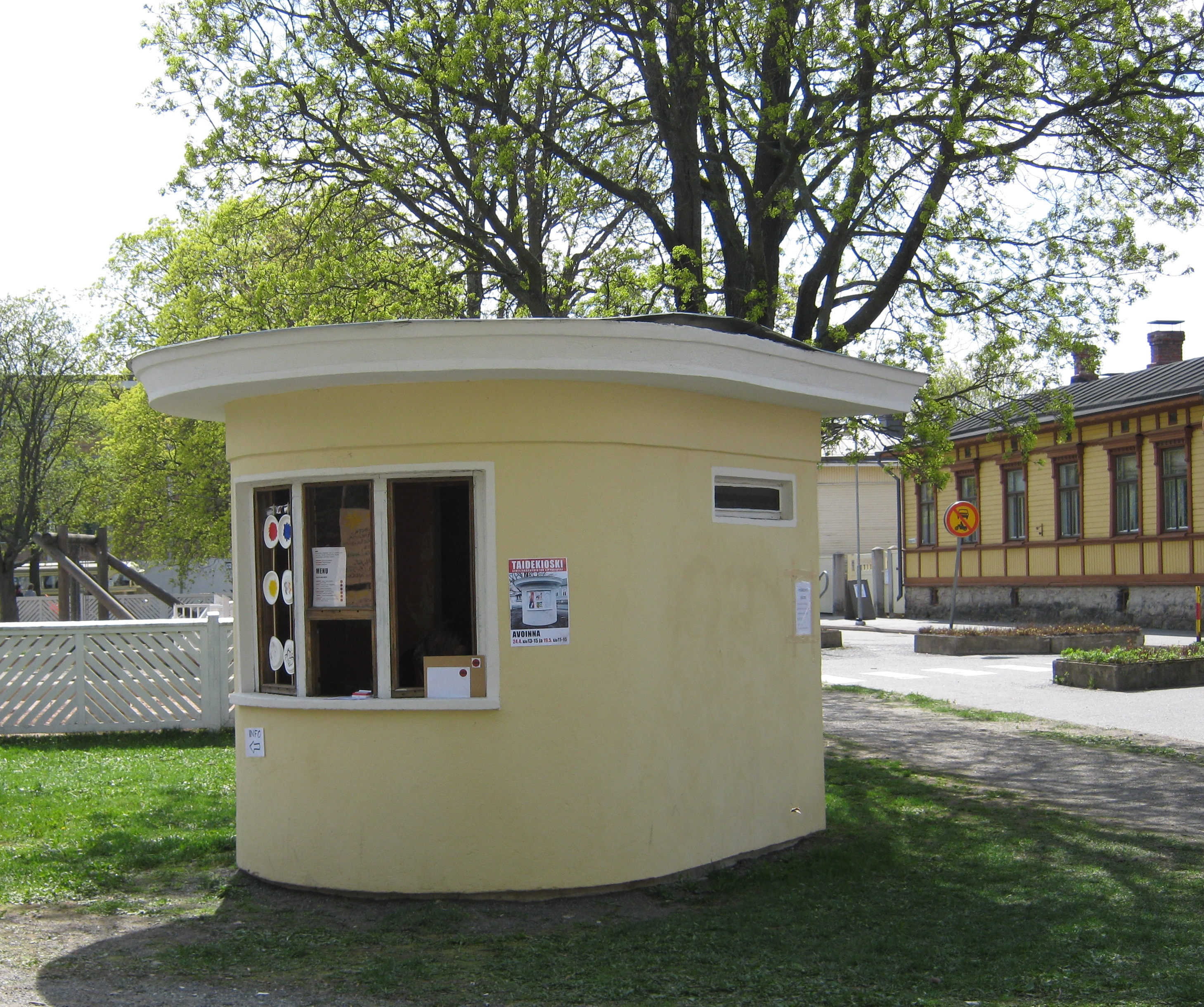 Kiosk from 1940's at Sibelius Park, Pori Finland. Design by architect Gunnar Taucher.